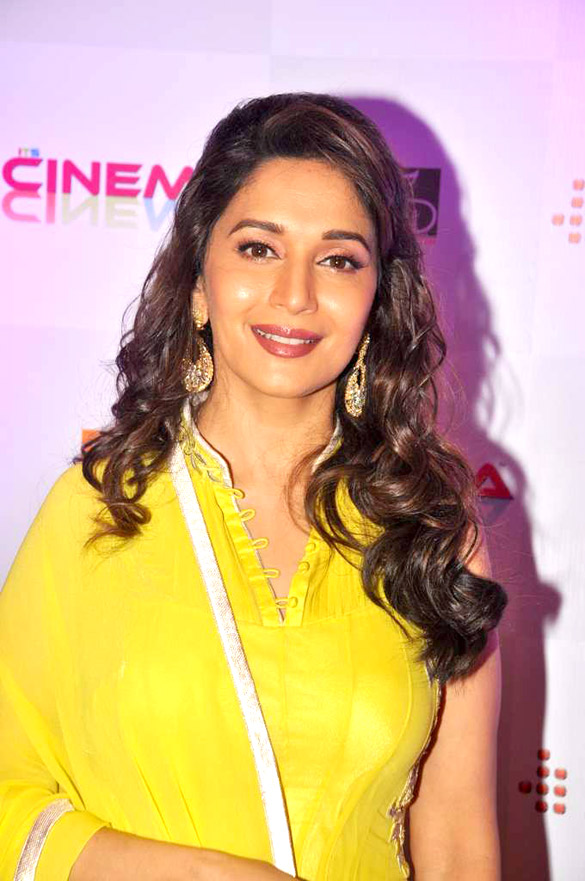 Madhuri at the launch of 'Its Only Cinema' magazine